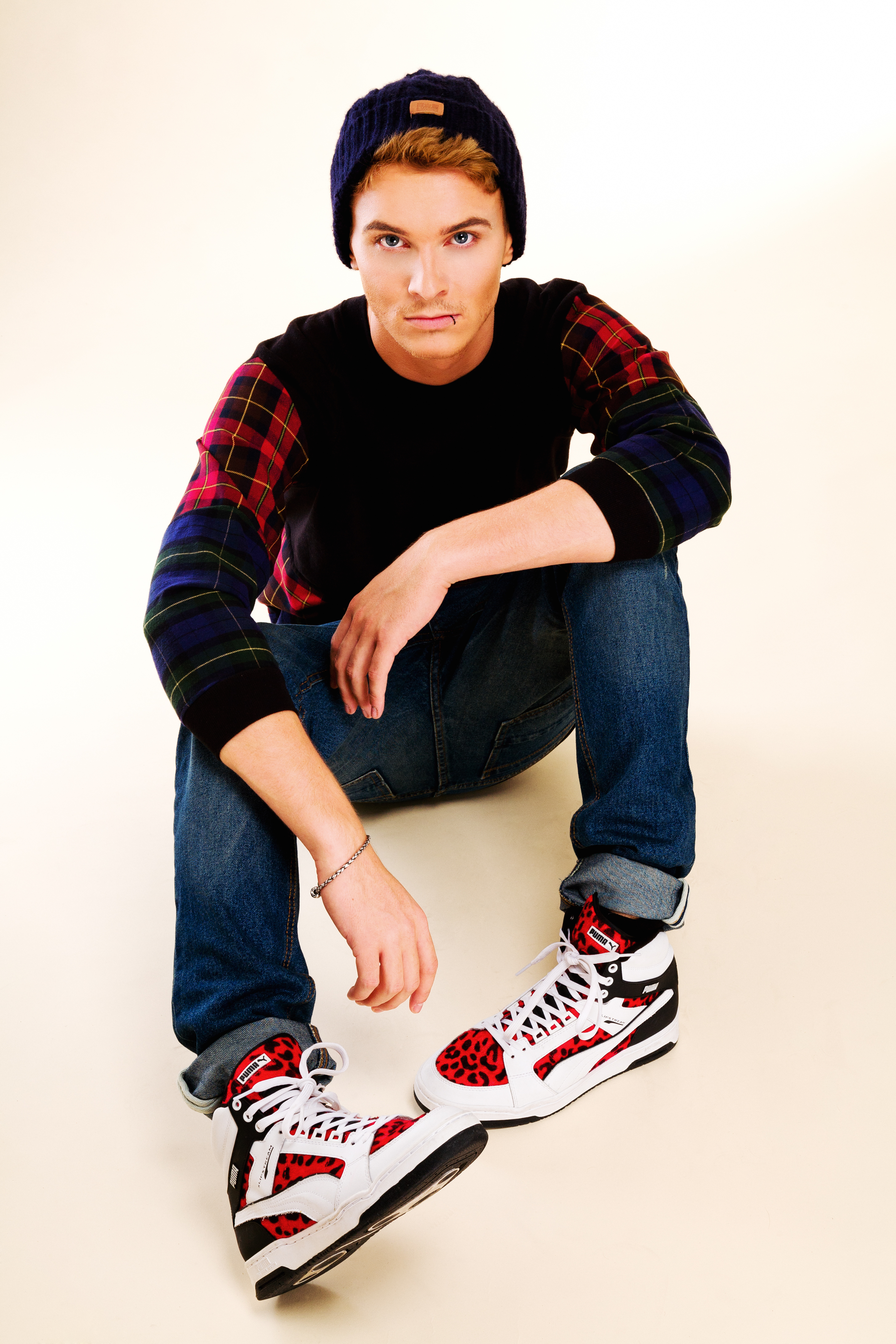 Anttix Promo Image OfficialAnttix